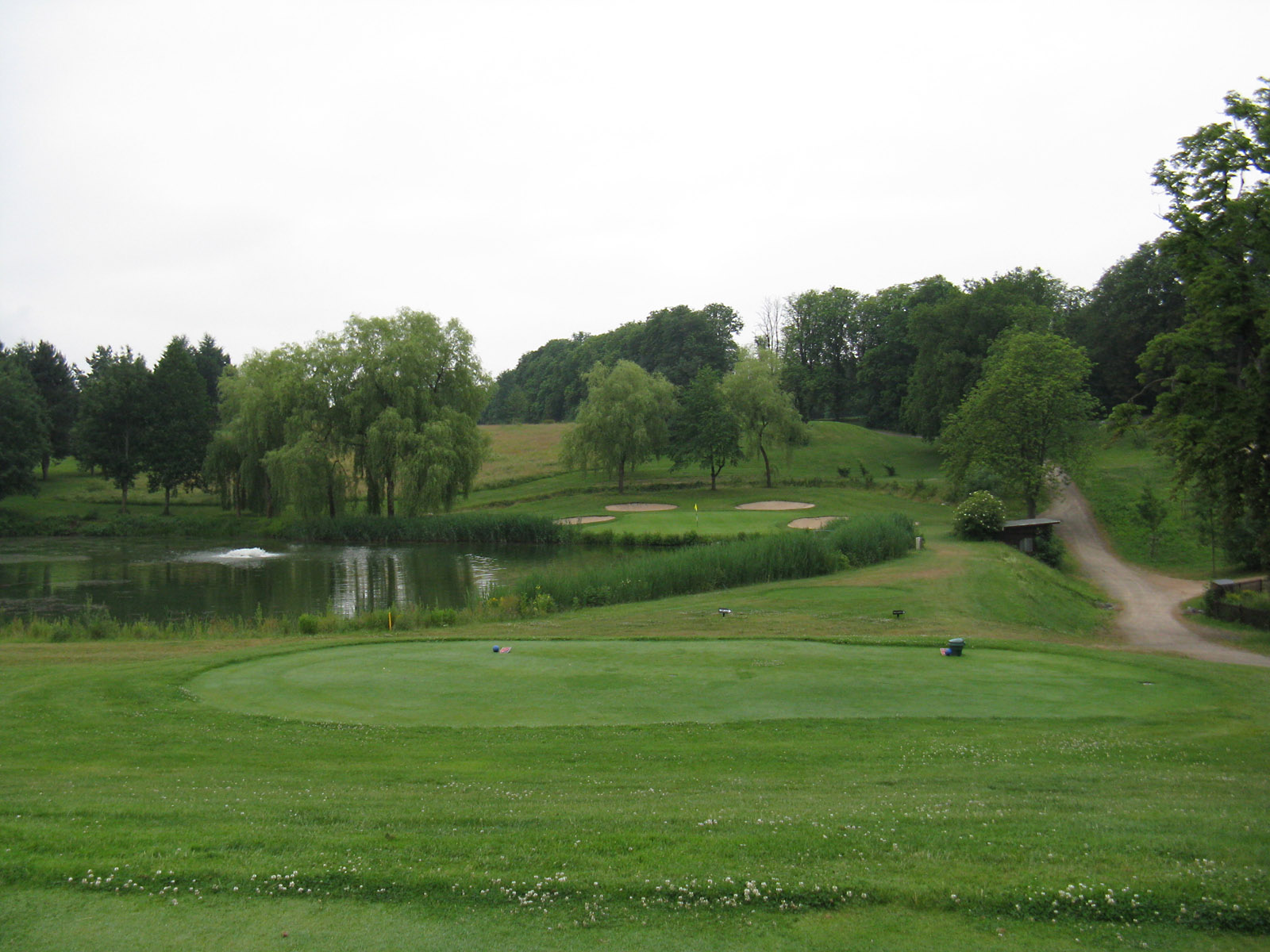 Hole 16 of the Golf Club Schloss Braunfels in Hesse, Germany